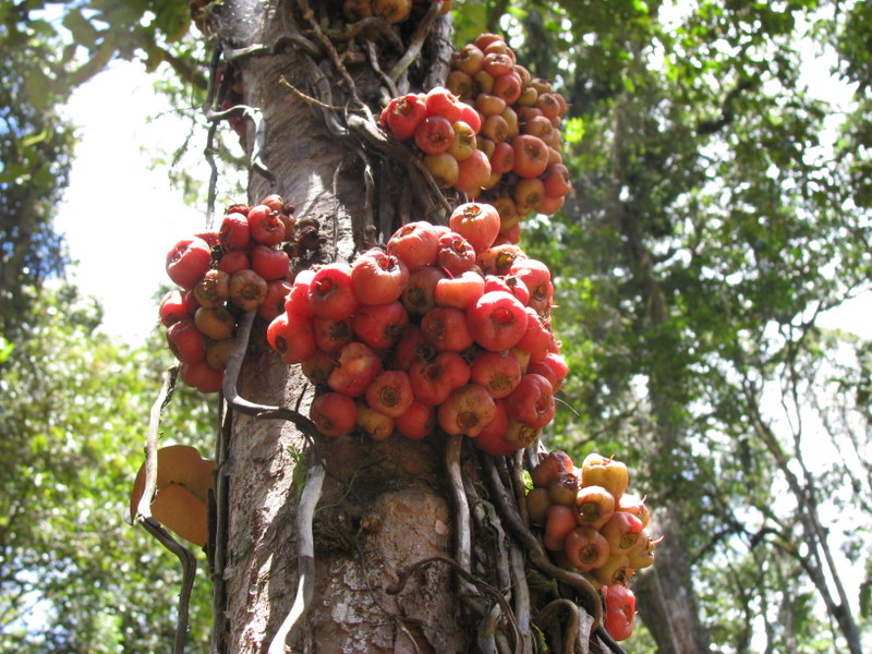 Cauliflorus Ficus itoana, between Eora Creek and Templeton Crossing on the Kokoda Track, Papua New Guinea. The taste of the fruit was rather bitter. cf. Ficus itoana, location